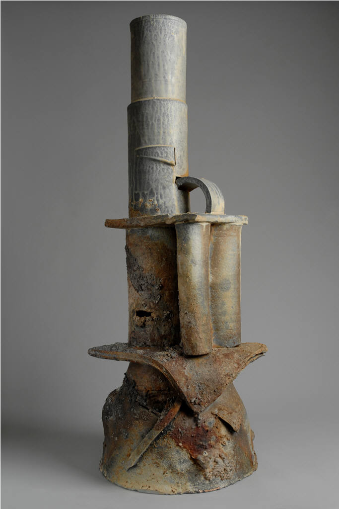 Florida Kachina, Don Reitz, 2009. 38 x 12 x 12 1/2 in. Wood-fired stoneware Collection of Beth Morean